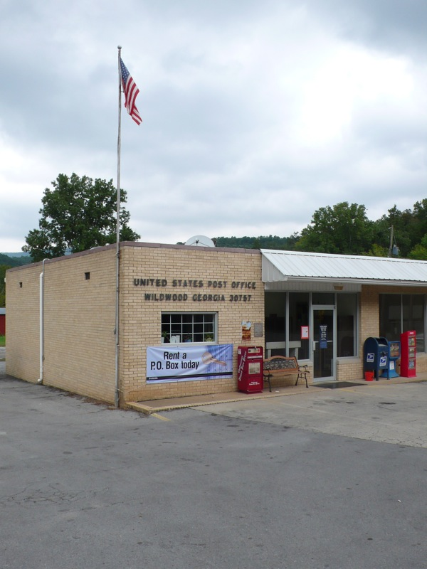 The US Post Office in Wildwood, Georgia